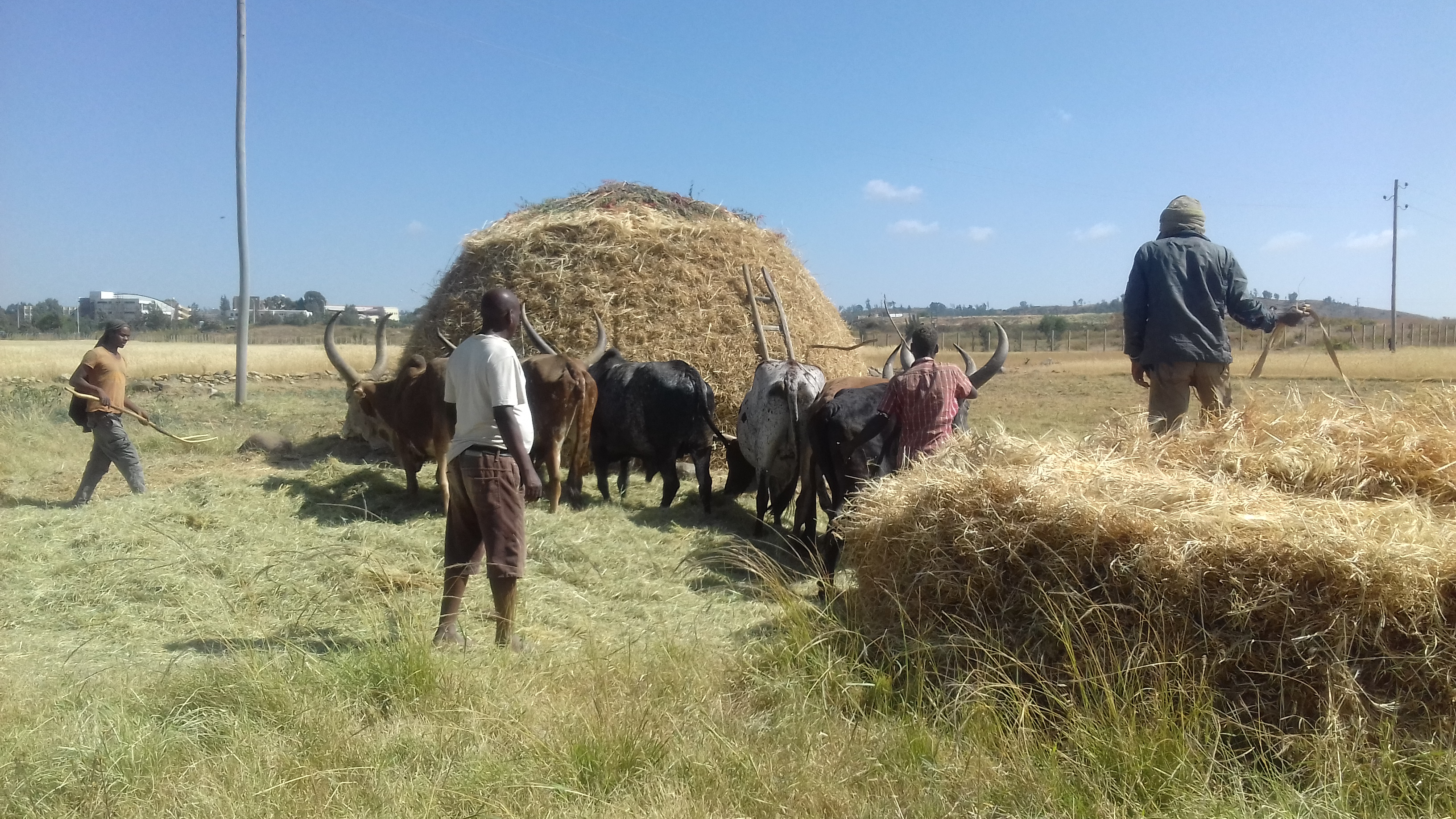 About 30 minutes from Mekele, Tigray, farmers were interviewed about their techniques. Here they are using oxen to thresh grain (a process to separate the grain from the husks) which is an unusual way to thresh compared to global practice. This is an image of "African people at work" from Ethiopia